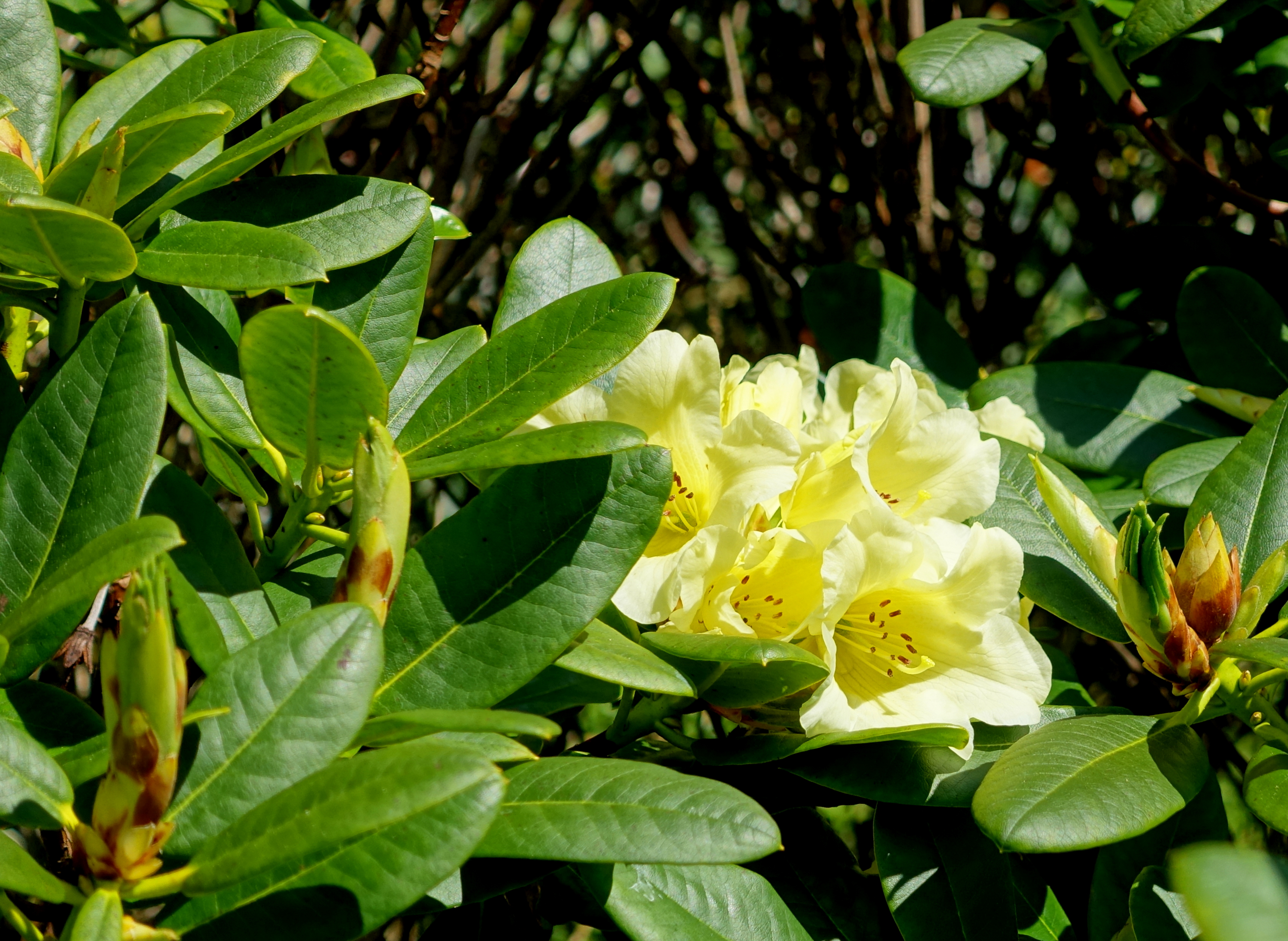 Botanical specimen in Caerhayes Castle gardens - Cornwall, England.